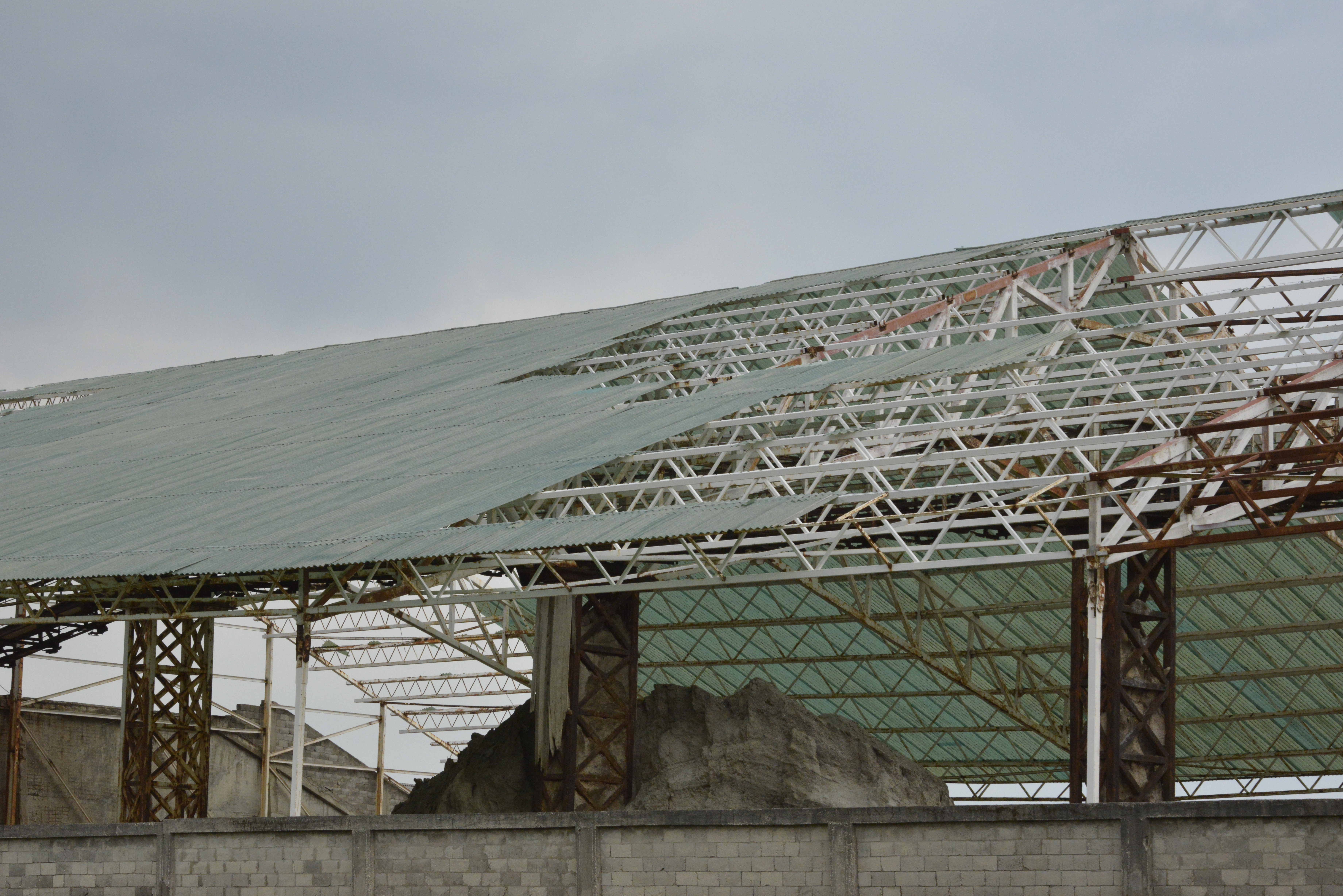 Ulcinj Salinas, summer 2019